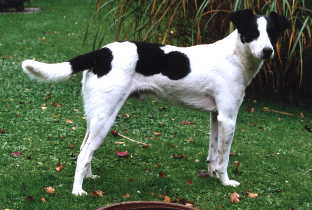 Mongrel Dog (Promenadenmischung) named "Cosimo". Typical italian bastard dog.